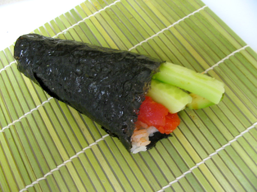 Spicy Tuna Hand Roll